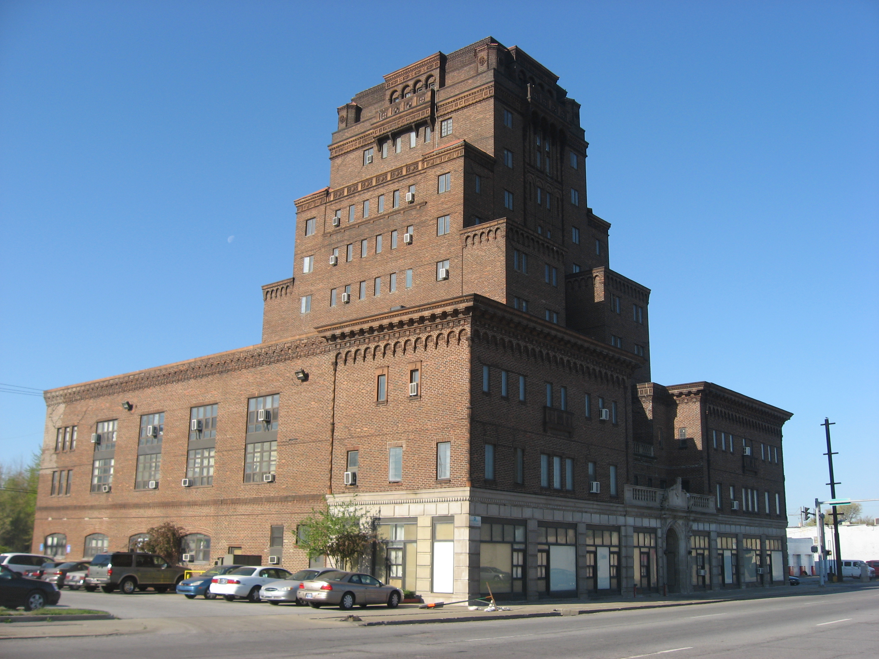 Front and eastern side of the Knights of Columbus Building, located at 333 W. Fifth Avenue (U.S. Routes 12/20) in Gary, Indiana, United States. Built in 1925, it is listed on the National Register of Historic Places.